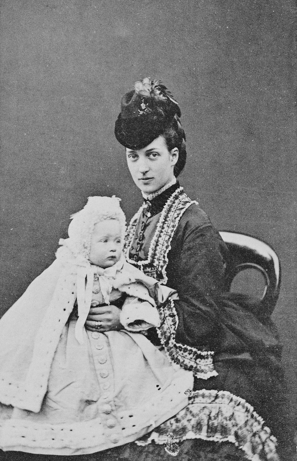 Alexandra, Princess of Wales, with Princess Maud